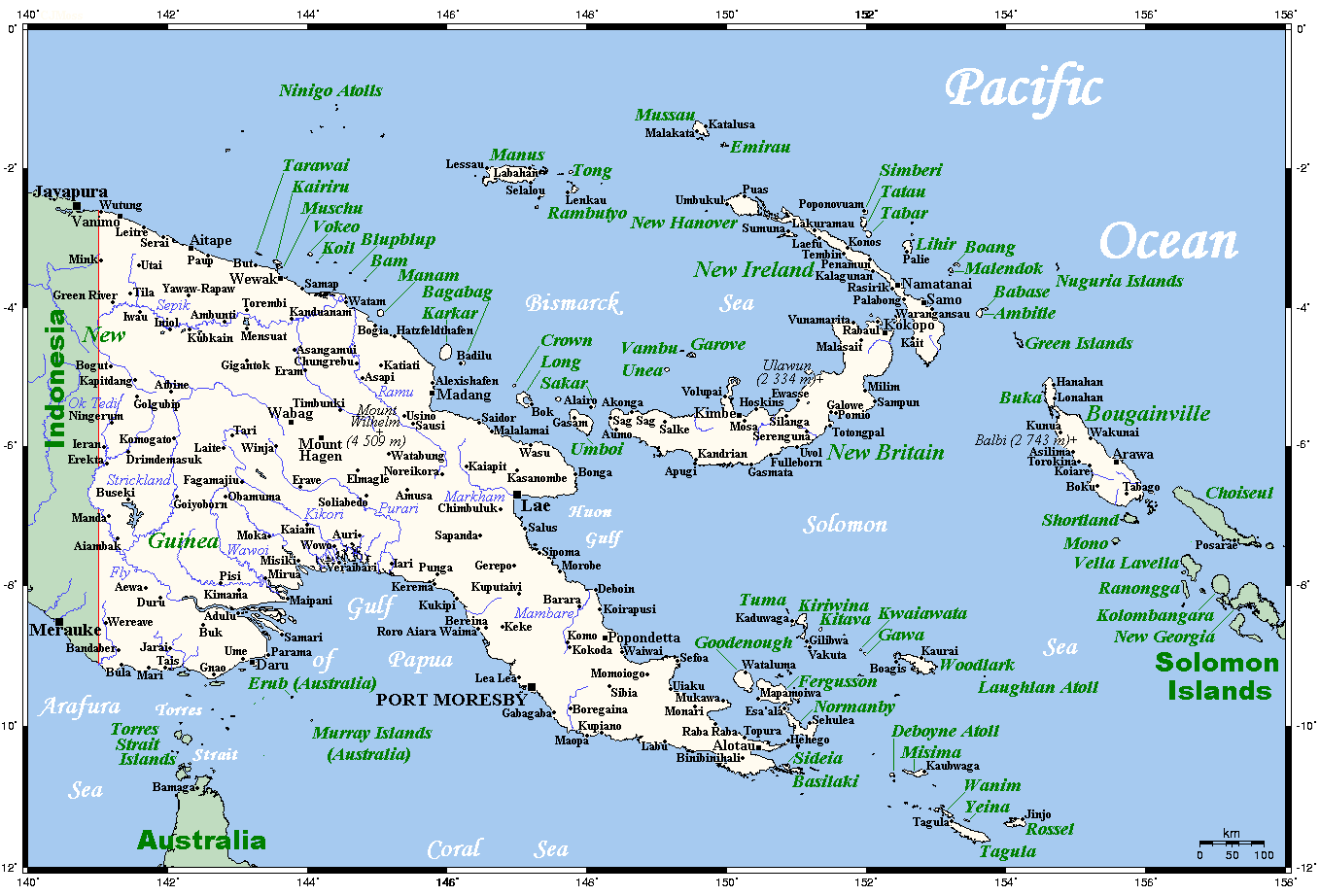 A map showing Papua New Guinea's cities, main towns, selected villages, rivers and its highest peaks. This map's source is here, with the uploader's modifications, and the GMT homepage says that the tools are released under the GNU General Public License.